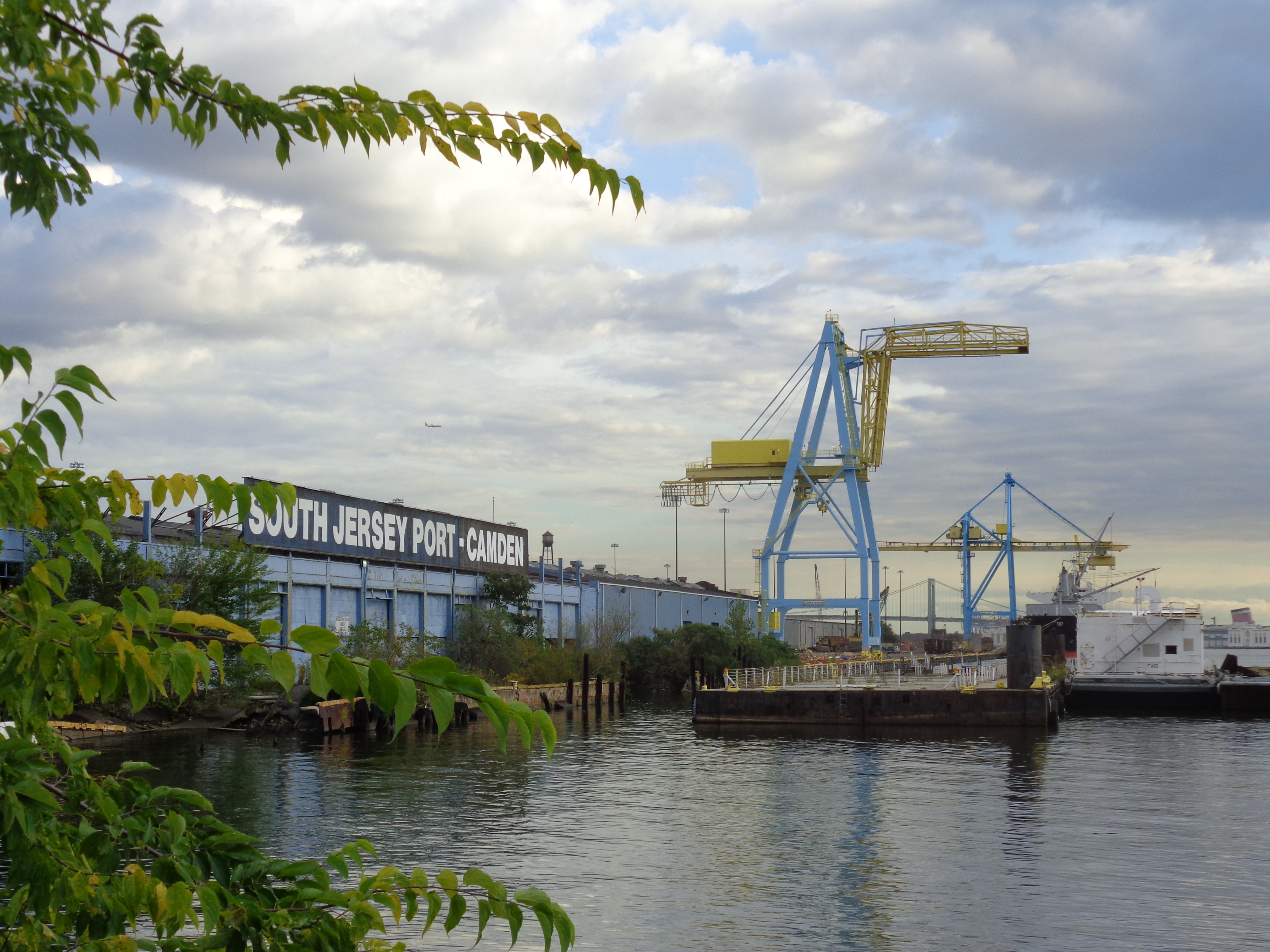 Port of Camden South Jersey Port Corporation container terminal on Delaware River